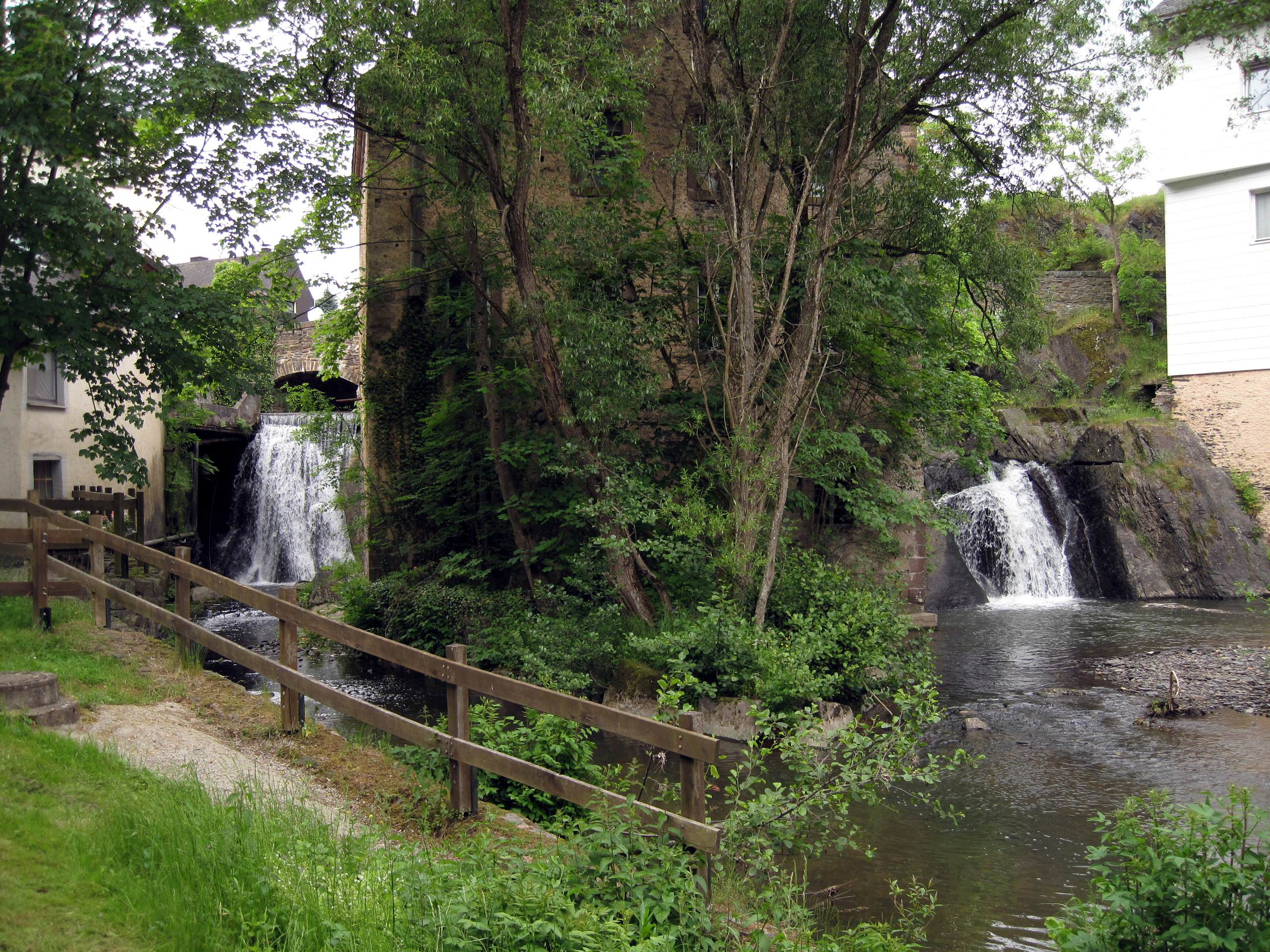 Waterfall of the river Enz close to the town-park of Neuerburg, Rhineland-Palatinate, Germany